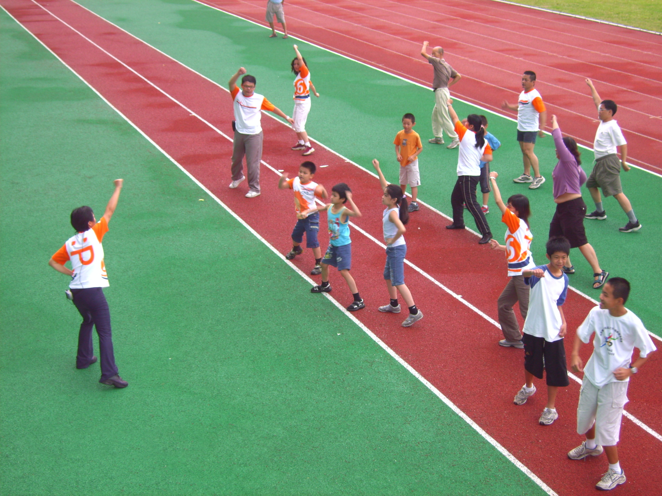 ING Running Club Taoyuan Branch at 2006 ING the 10th Taipei International Marathon.